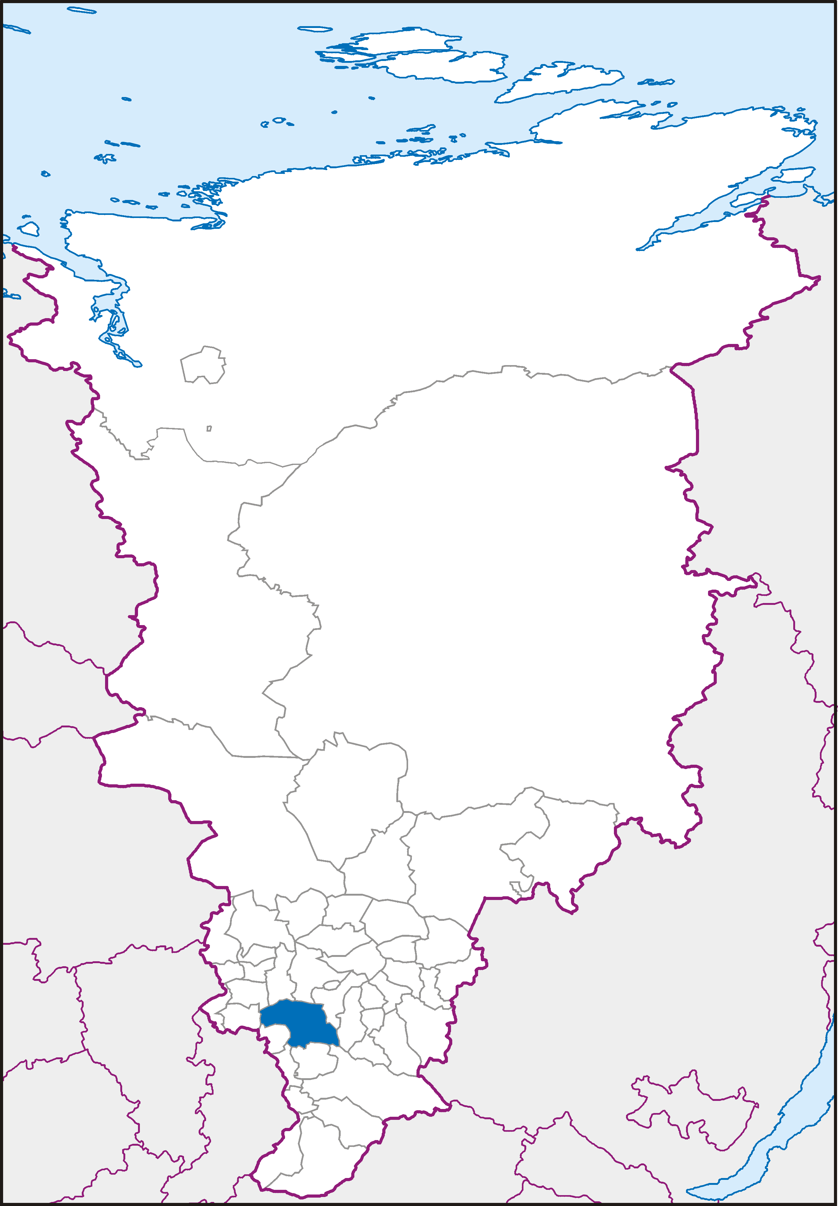 Map of Krasnoyarsk Krai in Albers Equal-Area Conic projection (Central Meridian = 95° E)